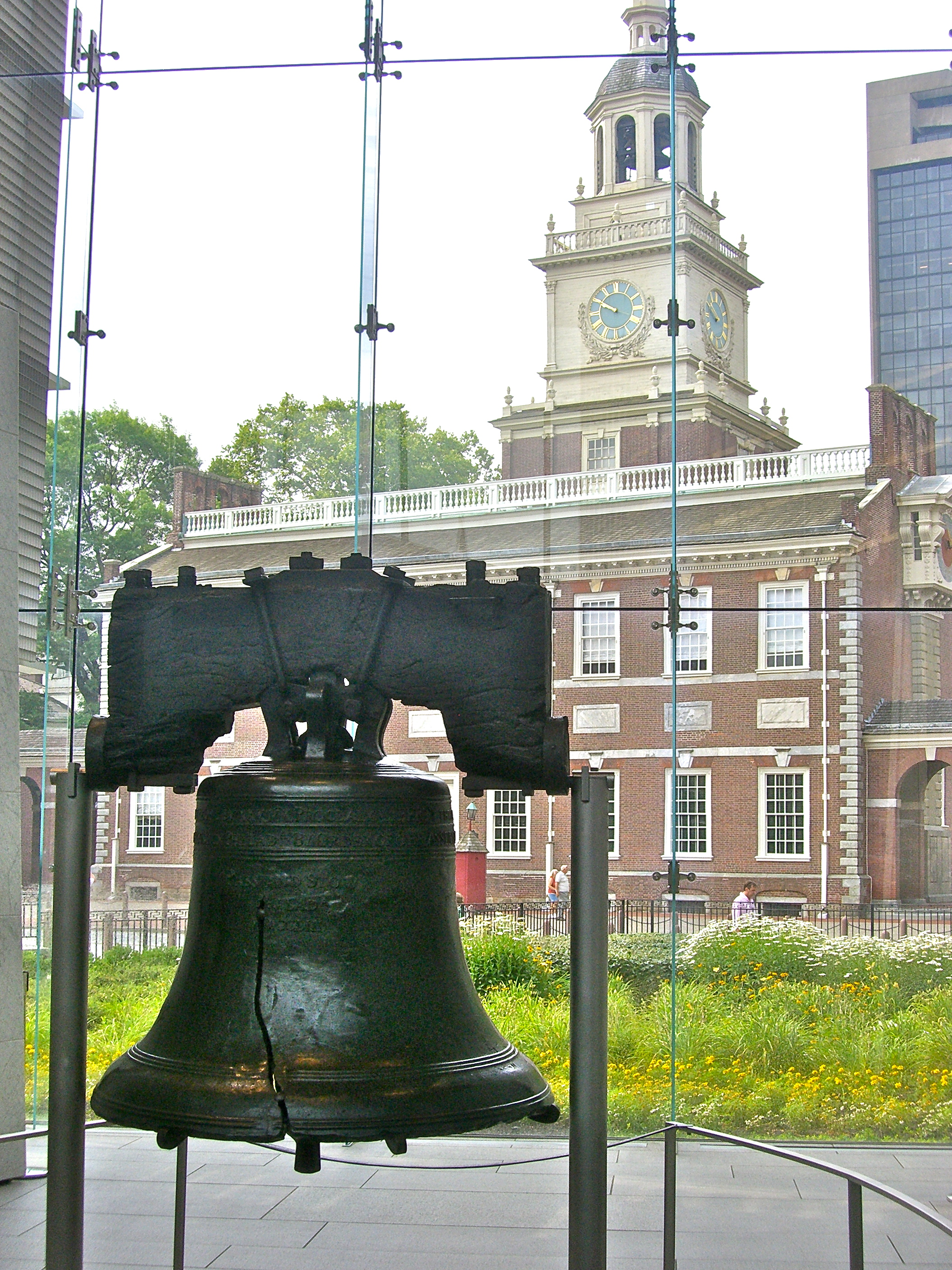 Liberty Bell